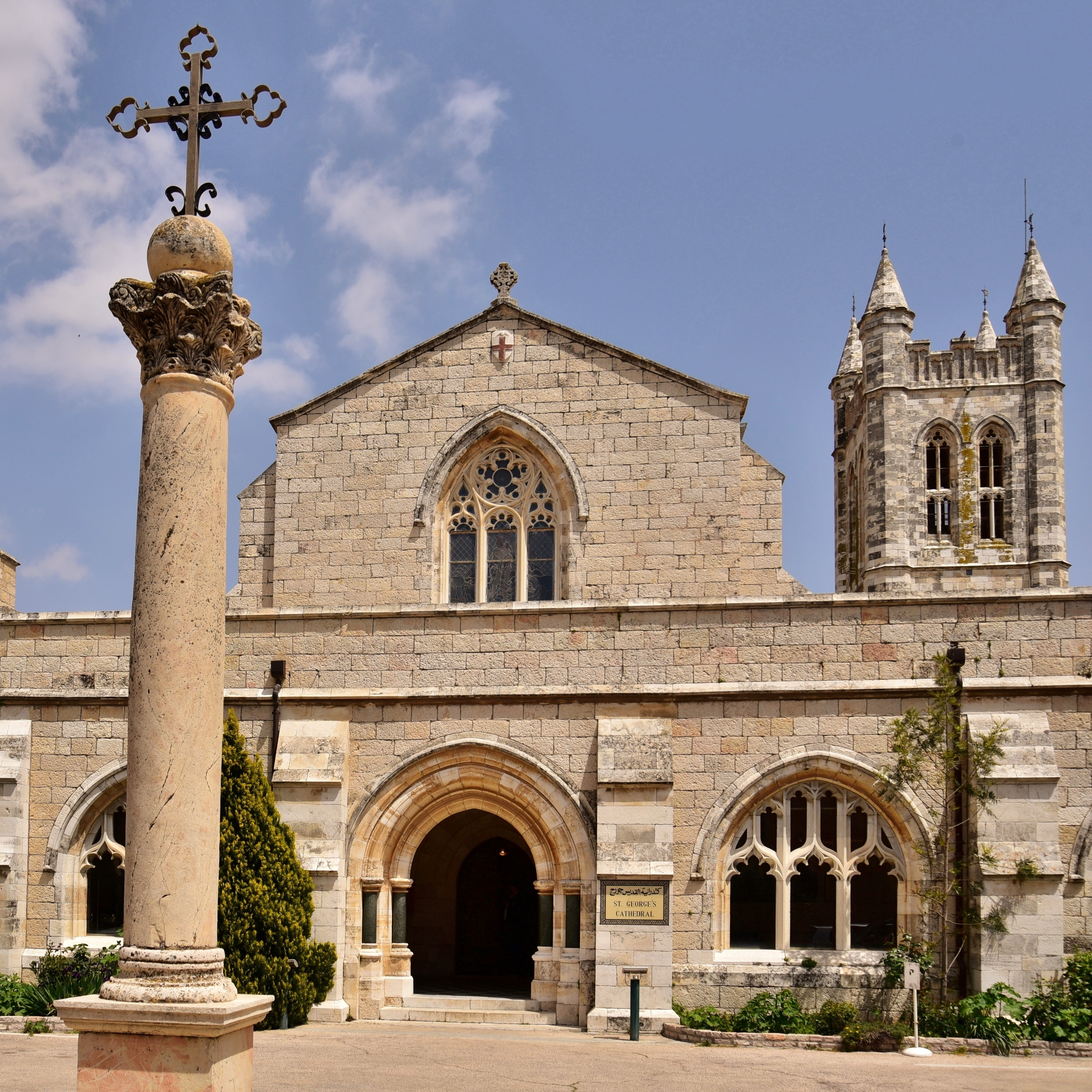 View of the cloisters of St. George's Cathedral, Jerusalem